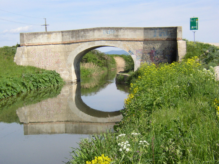 Bridge across the Wiener Neustädter Kanal east of Maria Teheresia settlement in Eggendorf municipality, Lower Austria. On the right bank of the canal the towing path which was used by horsemen and horses to pass below the bridge is still clearly visible.